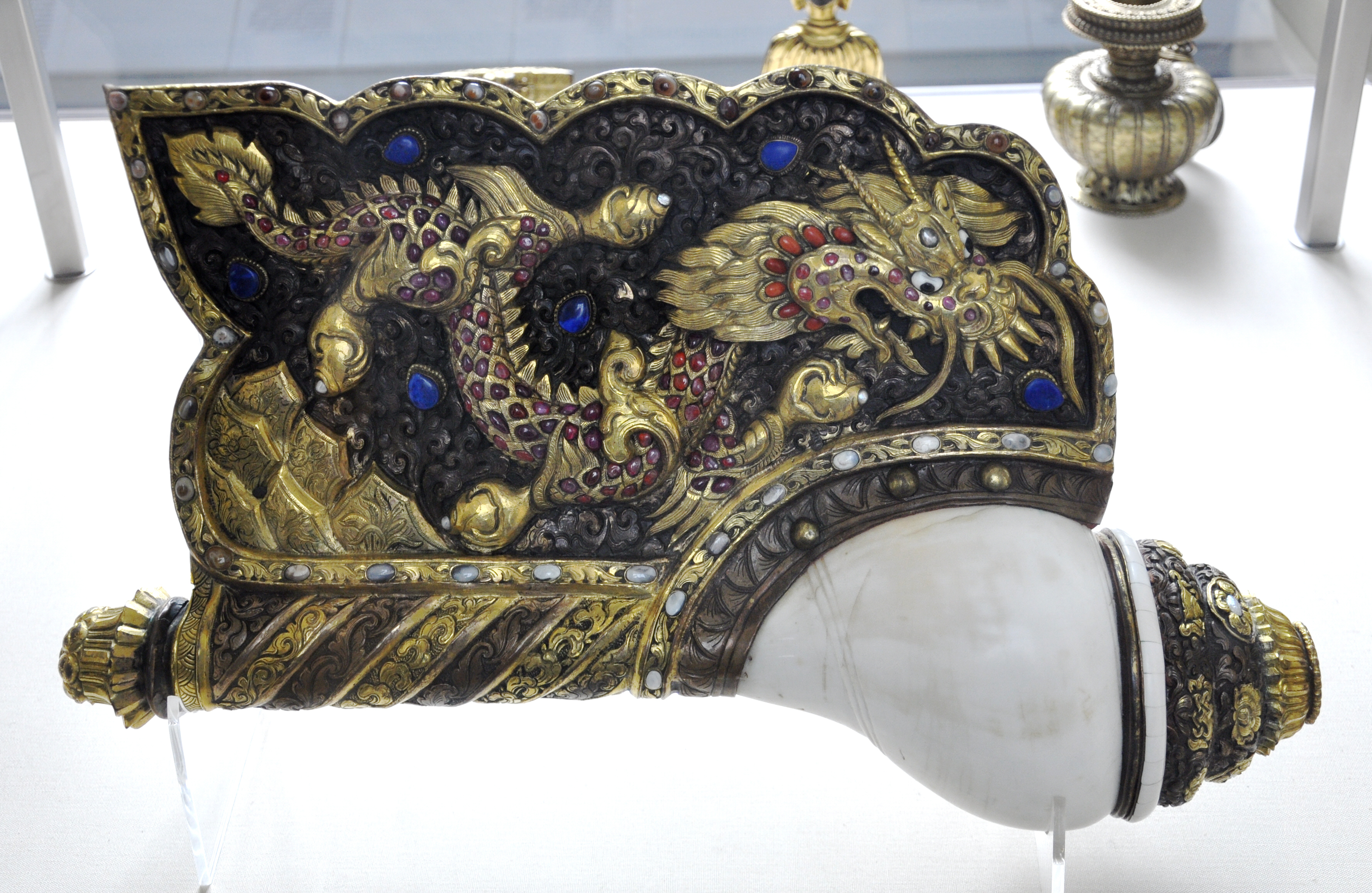 British Museum reference1992,1214.16Detailed descriptionTrumpet. Made of conch shell with copper, gilt copper alloy and semi precious stones. Metal pendant with dragon motif. Used in the monastic orchestra. Tibet, 18th/19th centurySize44 x 25 cmLocationRoom 33